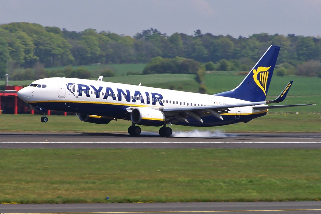 EI-EBV Boeing 737-800 Ryanair landing at Prestwick